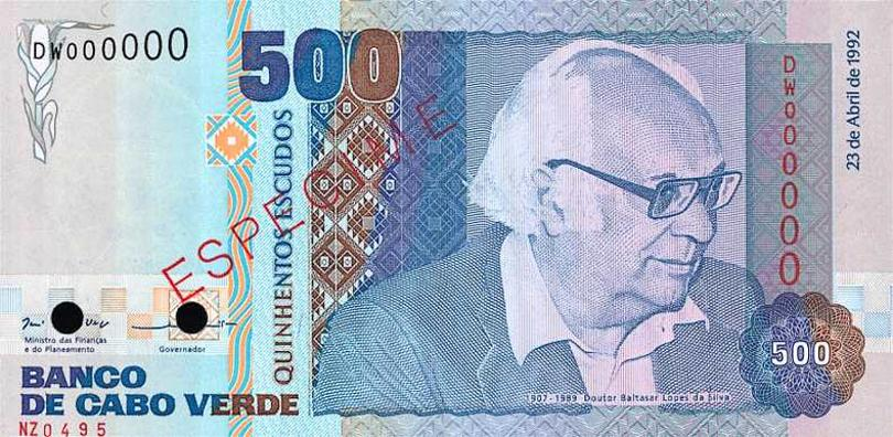 Cape-verdean 1992 500CVE note - front